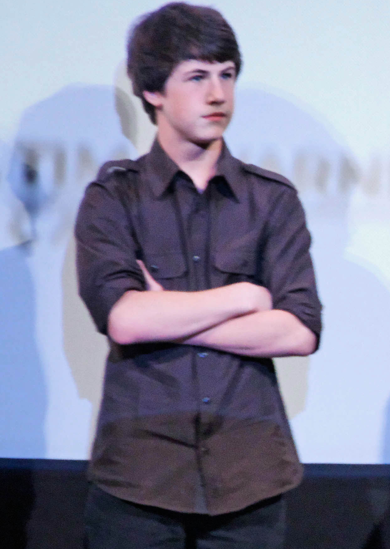 Actor Dylan Minnette in 2010.